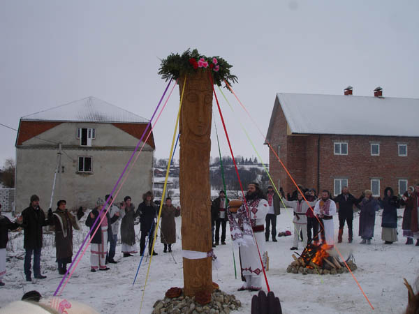 Ukrainian Rodnovers worshiping a goddess in the occasion of the celebration of Vodokres holiday.